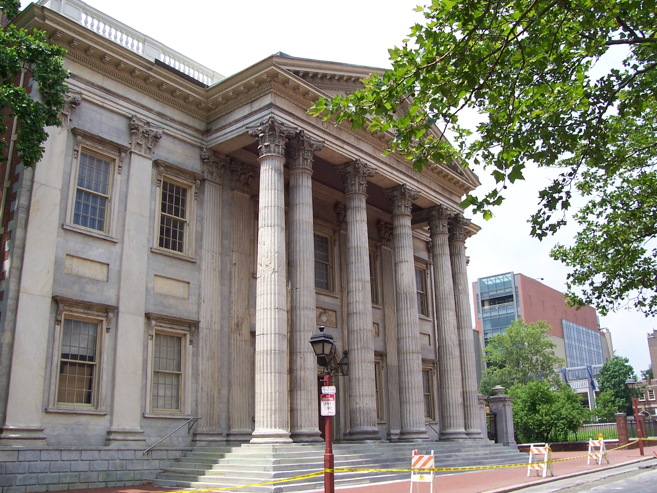 Image of the First Bank of the United States.